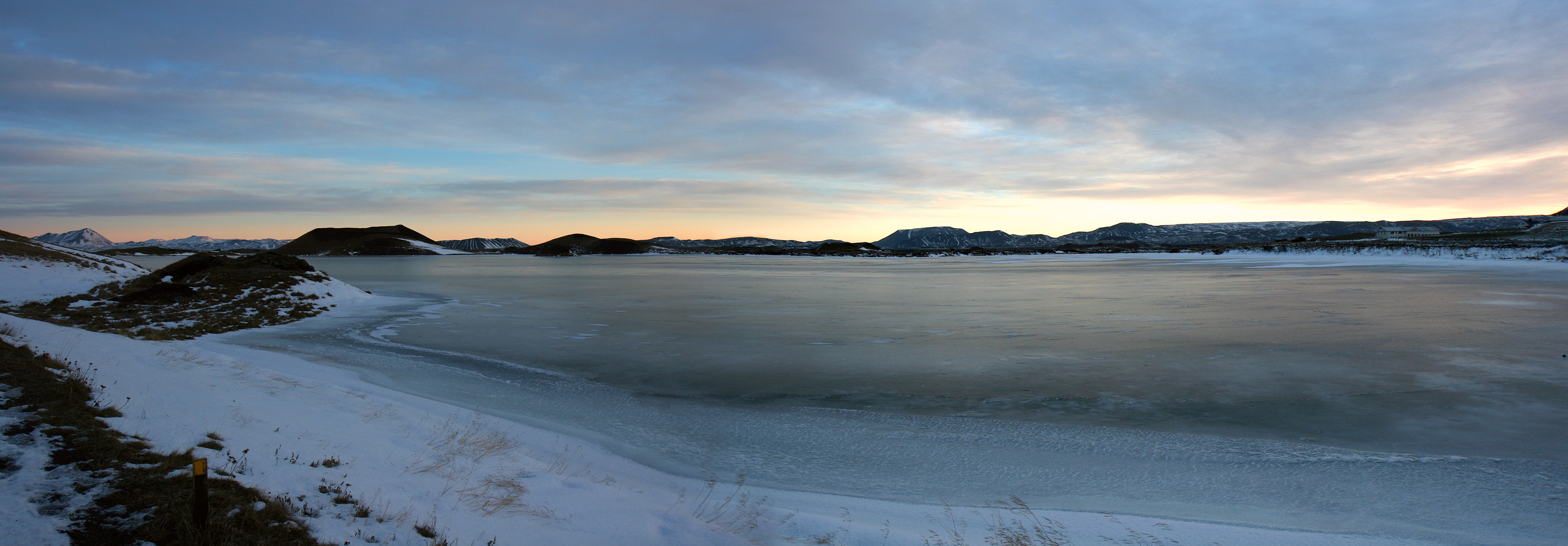 Mývatn near Skútustaðir, edged with pseudocraters, looking east, November 22 11:45 Iceland, November 2007 Photo by me user:debivort (or friend, with permission given to freely license photo).